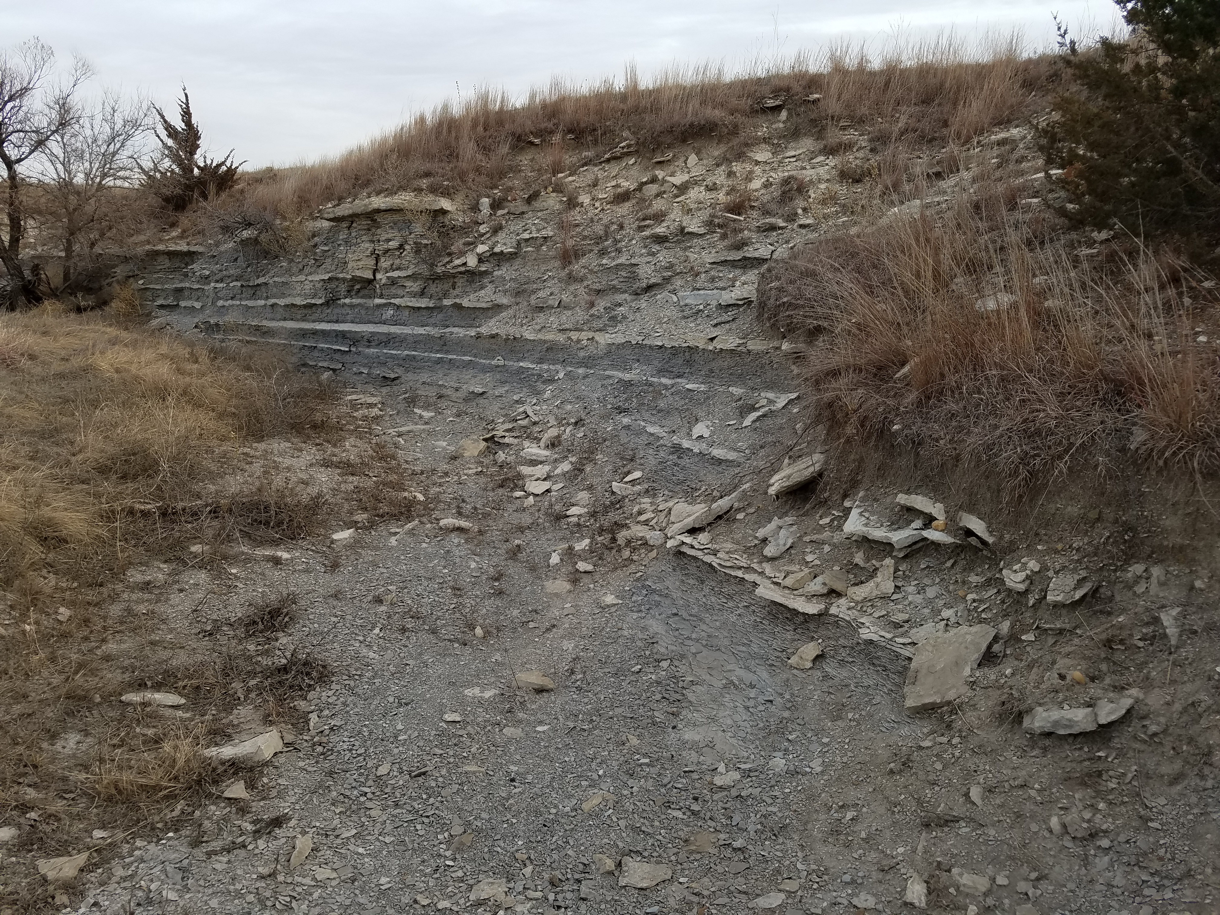 Jetmore Chalk member of the Greenhorn Limestone in Ellis County, Kansas.